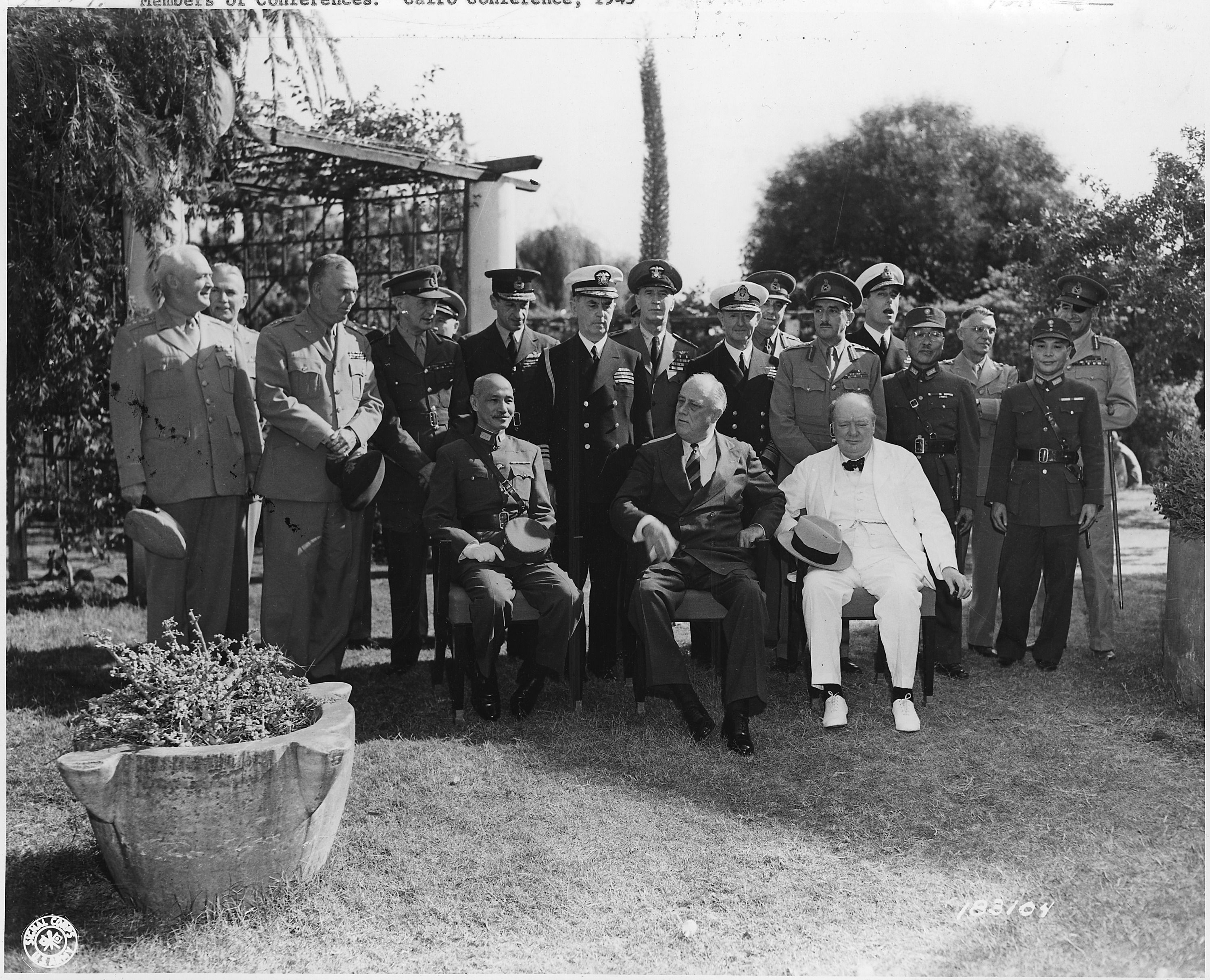 Scope and content: Cairo Conference - The Thanksgiving day meeting of the heads of Governments of China, Britain and the United States and their Military and Civilian Staff. Egypt, 1943.